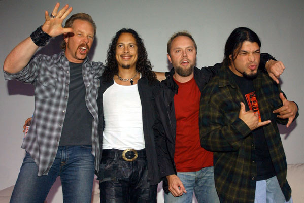 American band Metallica in 2003.